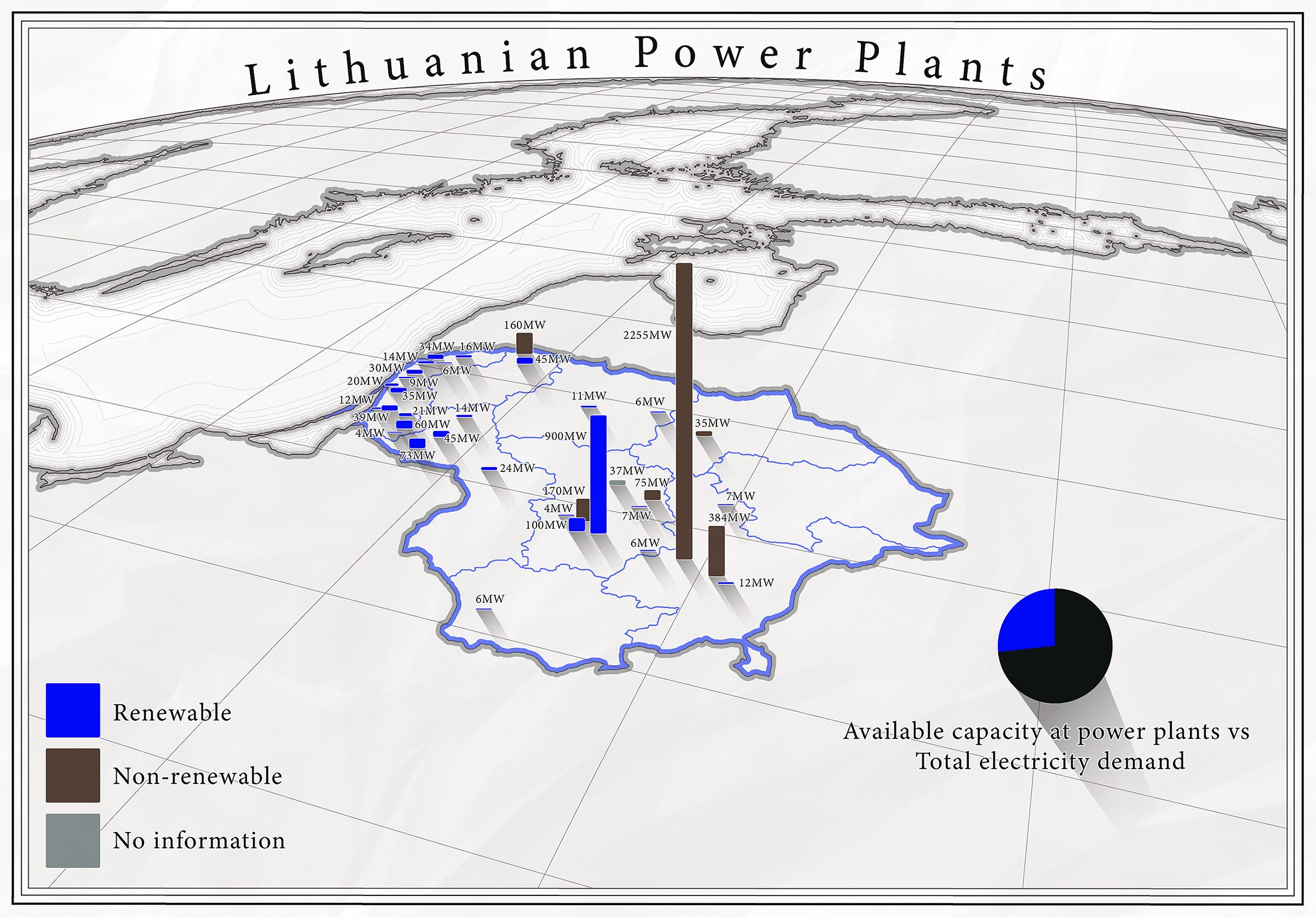 Map showing electricity production in Lithuania.